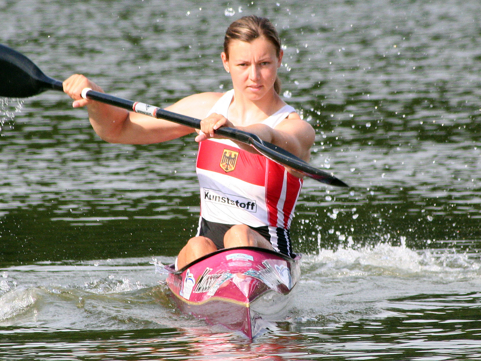 Nicole Reinhardt Olympic Champion Canoe Sprint [pic: 2010-07-13]